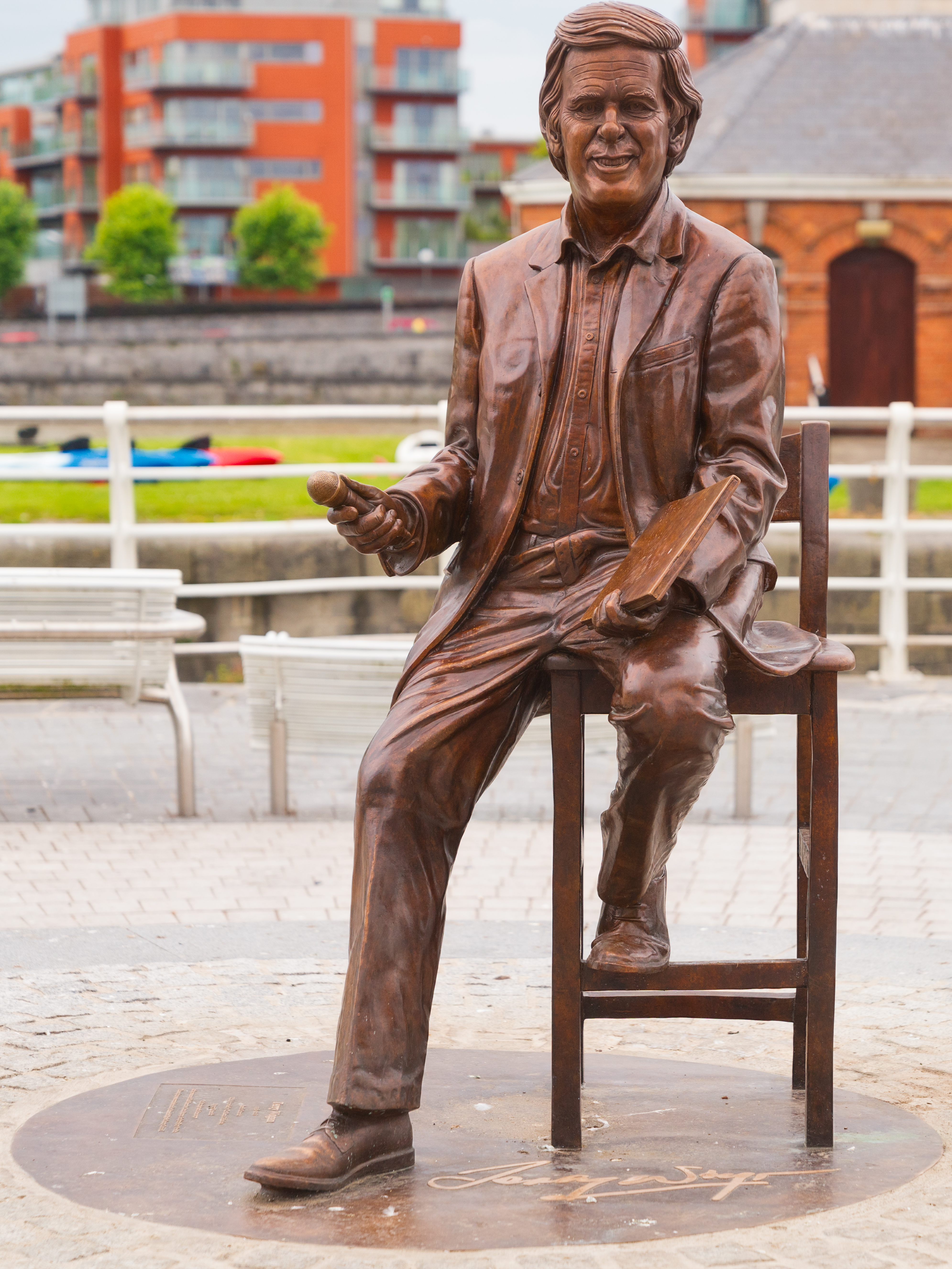 Sir Michael Terence Wogan, KBE, DL (3 August 1938 – 31 January 2016), better known as Terry Wogan, was an Irish radio and television broadcaster who worked for the BBC in the UK for most of his career. Before he retired in 2009, his BBC Radio 2 weekday breakfast programme Wake Up to Wogan had eight million regular listeners, making him the most listened-to radio broadcaster in Europe. Wogan was a leading media personality in Britain and Ireland from the late 1960s and was often referred to as a "national treasure". In addition to his weekday radio show, he was known for his work on television, including the BBC One chat show Wogan, presenting Children in Need, the game show Blankety Blank and Come Dancing. He was the BBC's commentator for the Eurovision Song Contest from 1971 to 2008 and its host in 1998. From 2010 to 2015 he presented Weekend Wogan, a two-hour Sunday morning show on BBC Radio 2. In 2005, Wogan acquired British citizenship in addition to his Irish nationality and was thus entitled to use the title "Sir" in front of his name when he was awarded a knighthood in the same year. He died from cancer at his home in Taplow, Buckinghamshire, on 31 January 2016, aged 77.